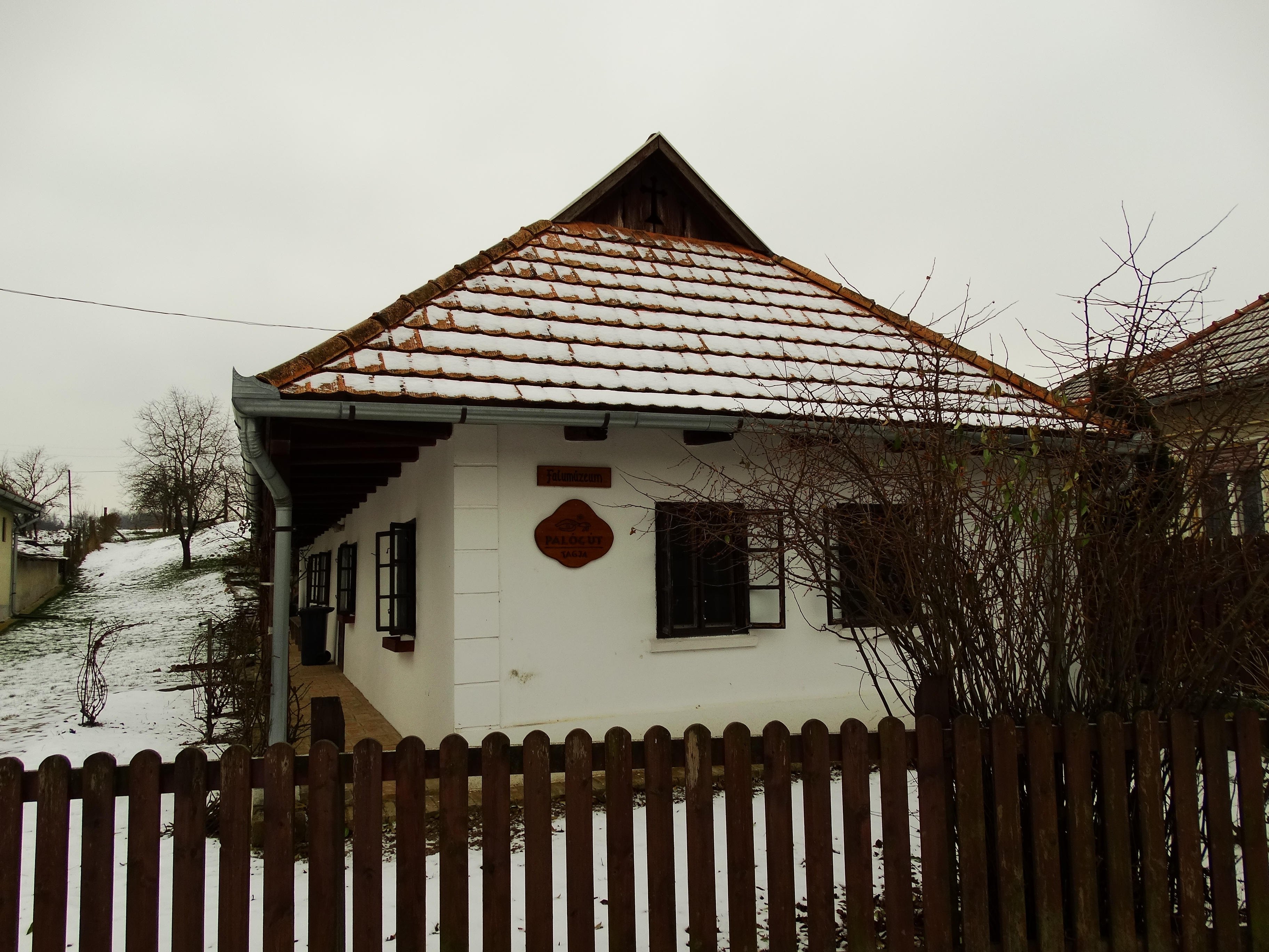 Old style Paloc house in Varsány